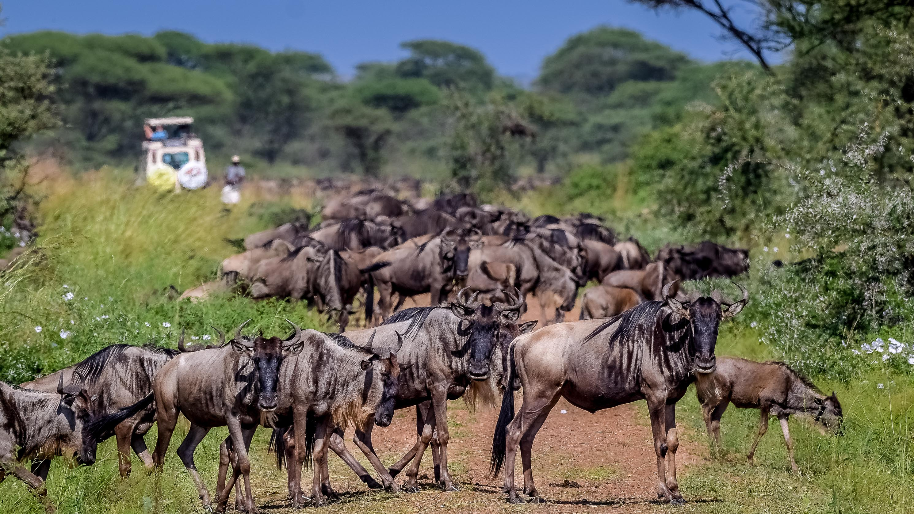 wildebeest, highway, serengeti, western corridor, africa, gnu